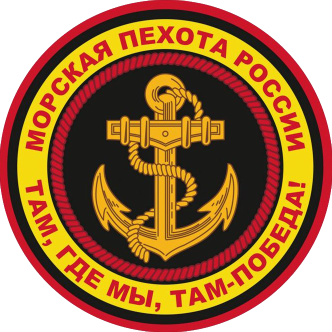 Naval Infantry of Russia